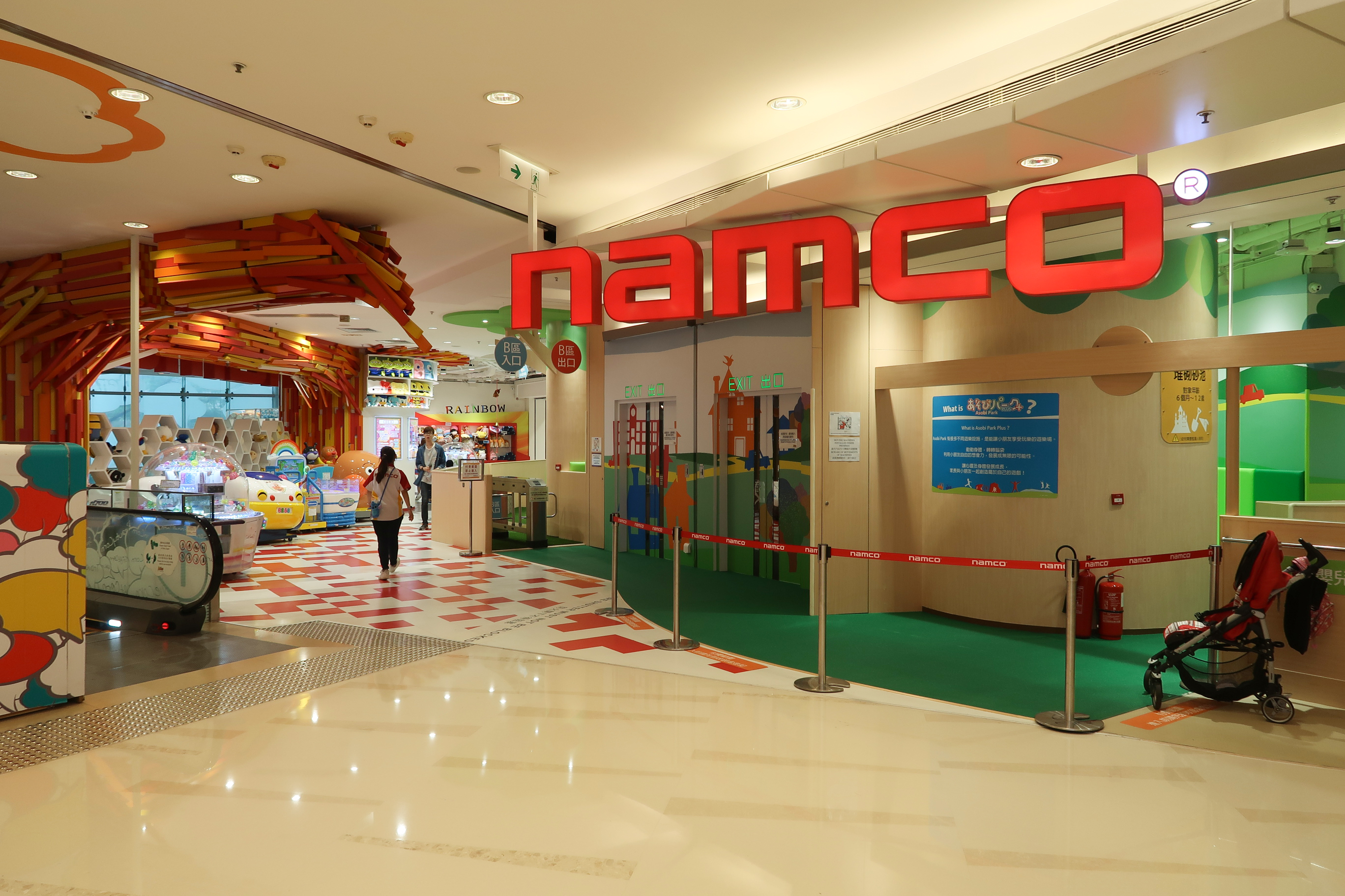 Namco in PopCorn2